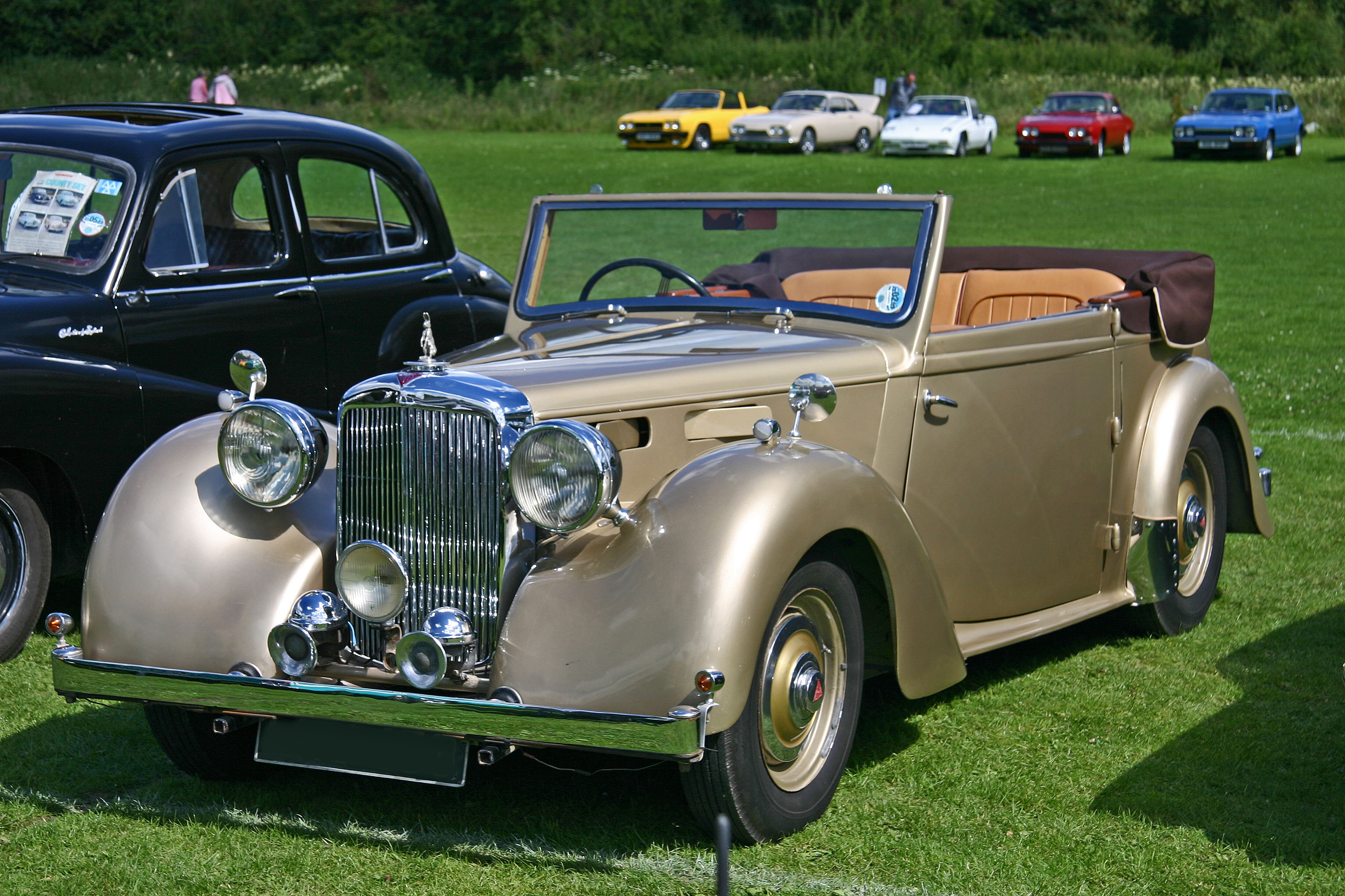 Alvis TA14 Tickford DHC. One of the last Tickford bodies for Alvis, as Aston Martin bought out Tickford for their own manufacture.